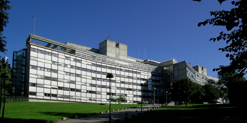 Police headquarters, Grønlandsleiret 44, Oslo. Architect: Telje-Torp-Aasen.